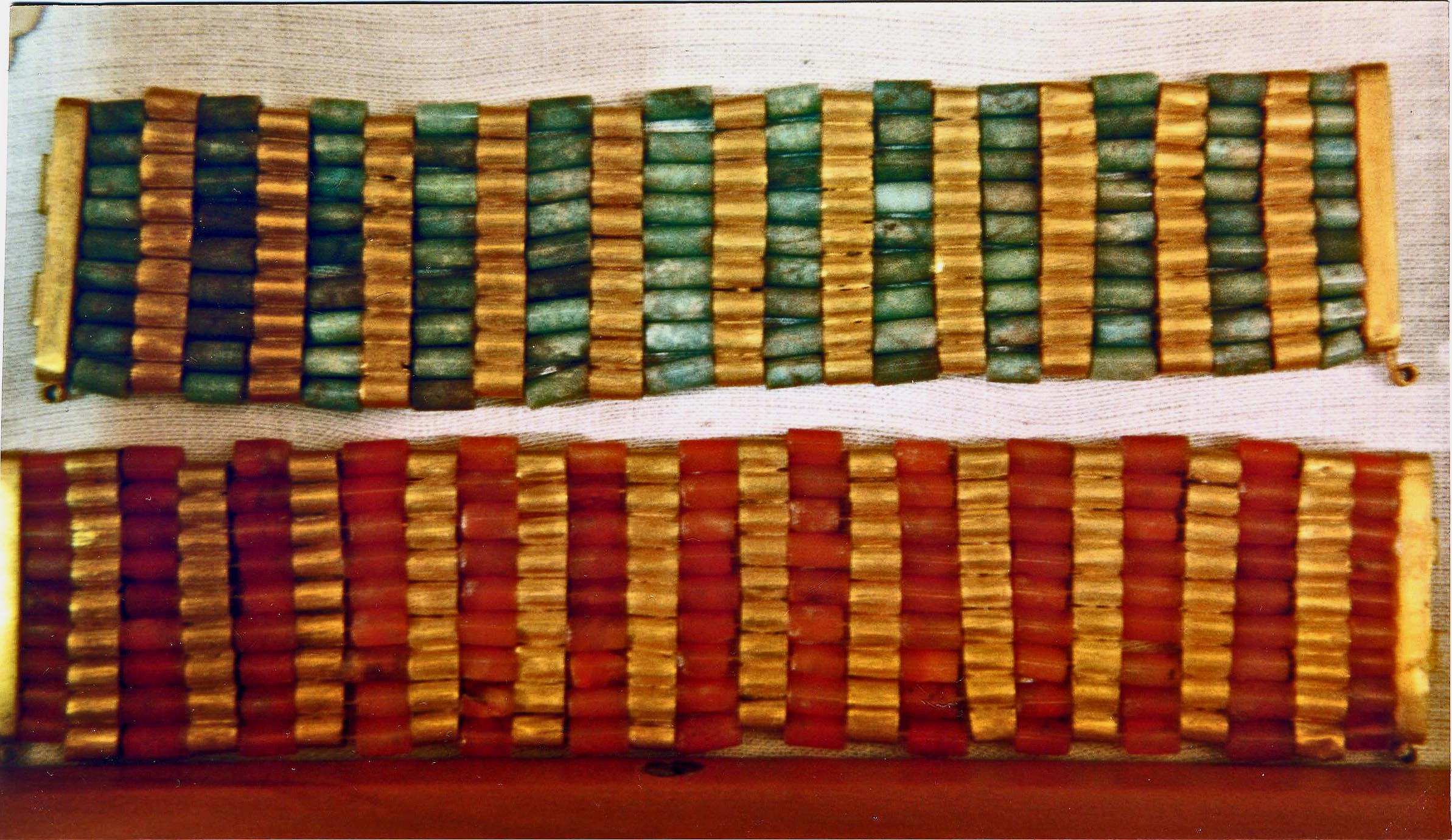 Armlets and anklets from the tomb of the 'king's daughter Nubhetepti-khered in Dahshur. Egyptian Museum, Cairo. 13th dynasty of Egypt.